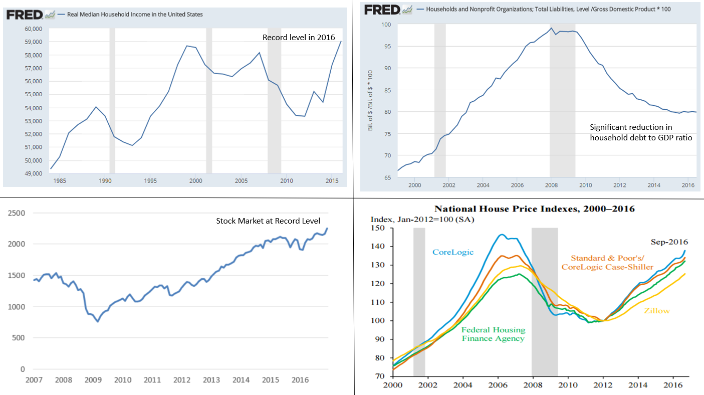 Four charts describing household variables such as income, debt, stock market, and housing prices.